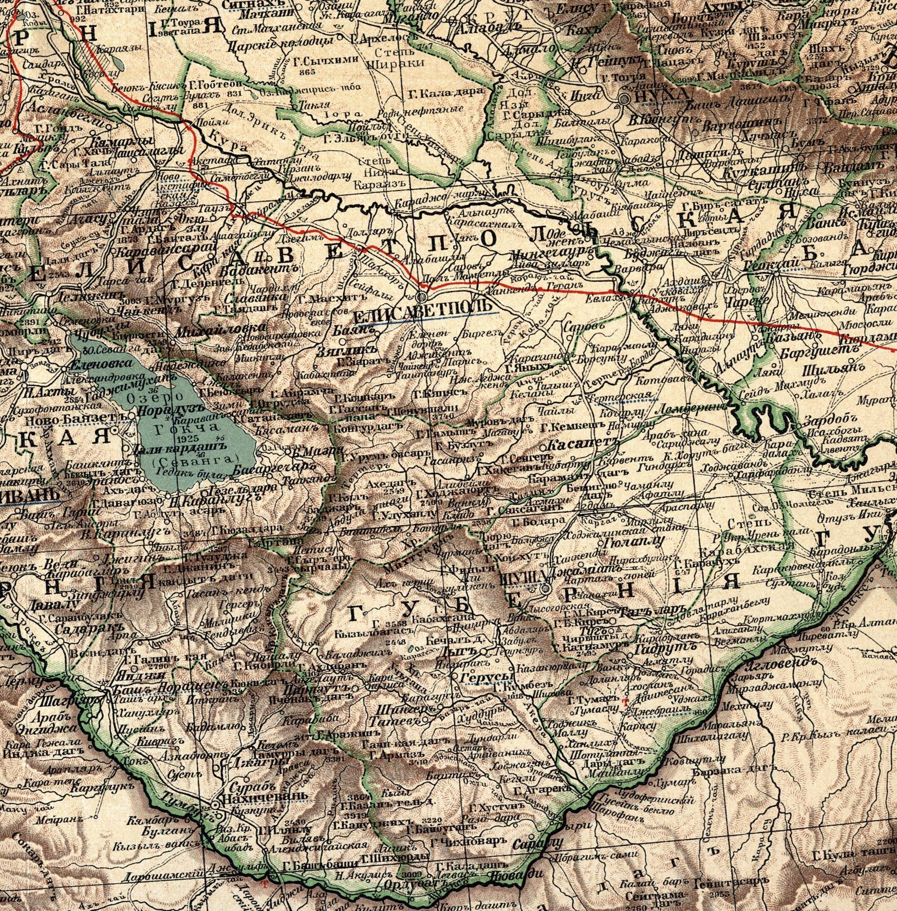 Map of Elisabethpol Governorate (Russian Empire)